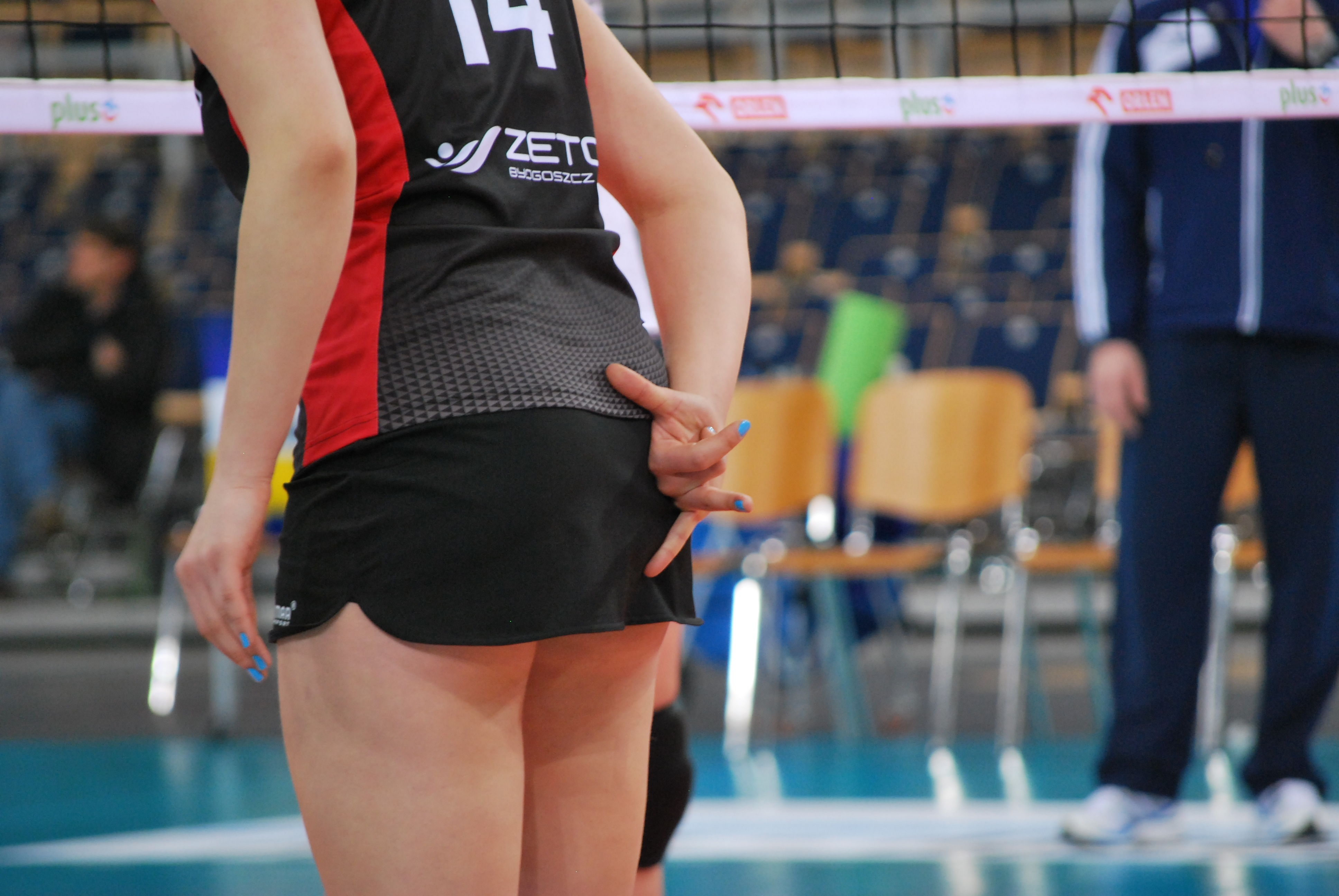 Signs of the setter in volleyball